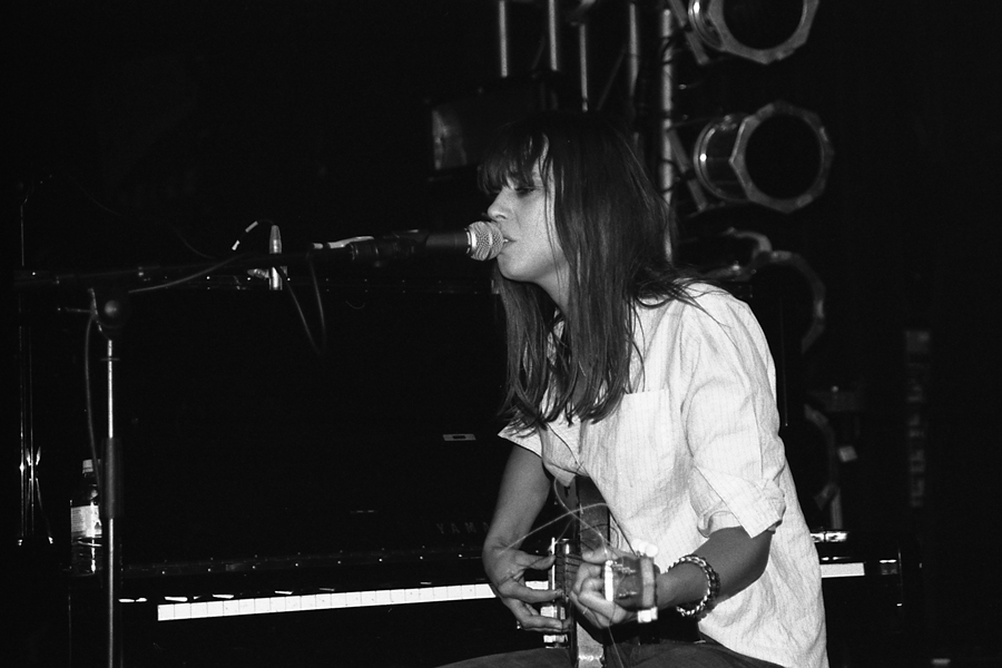 Cat Power performing at All Tomorrow's Parties, 2008